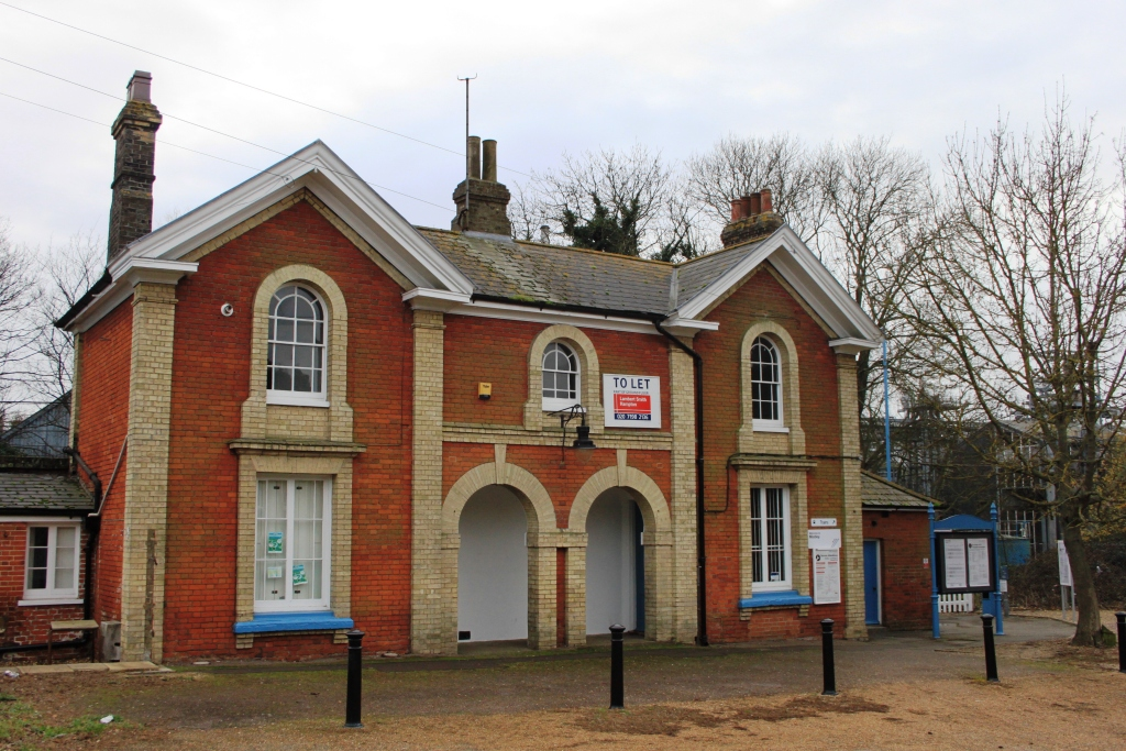 Mistley station in Essex, England, seen from the road (north) side.